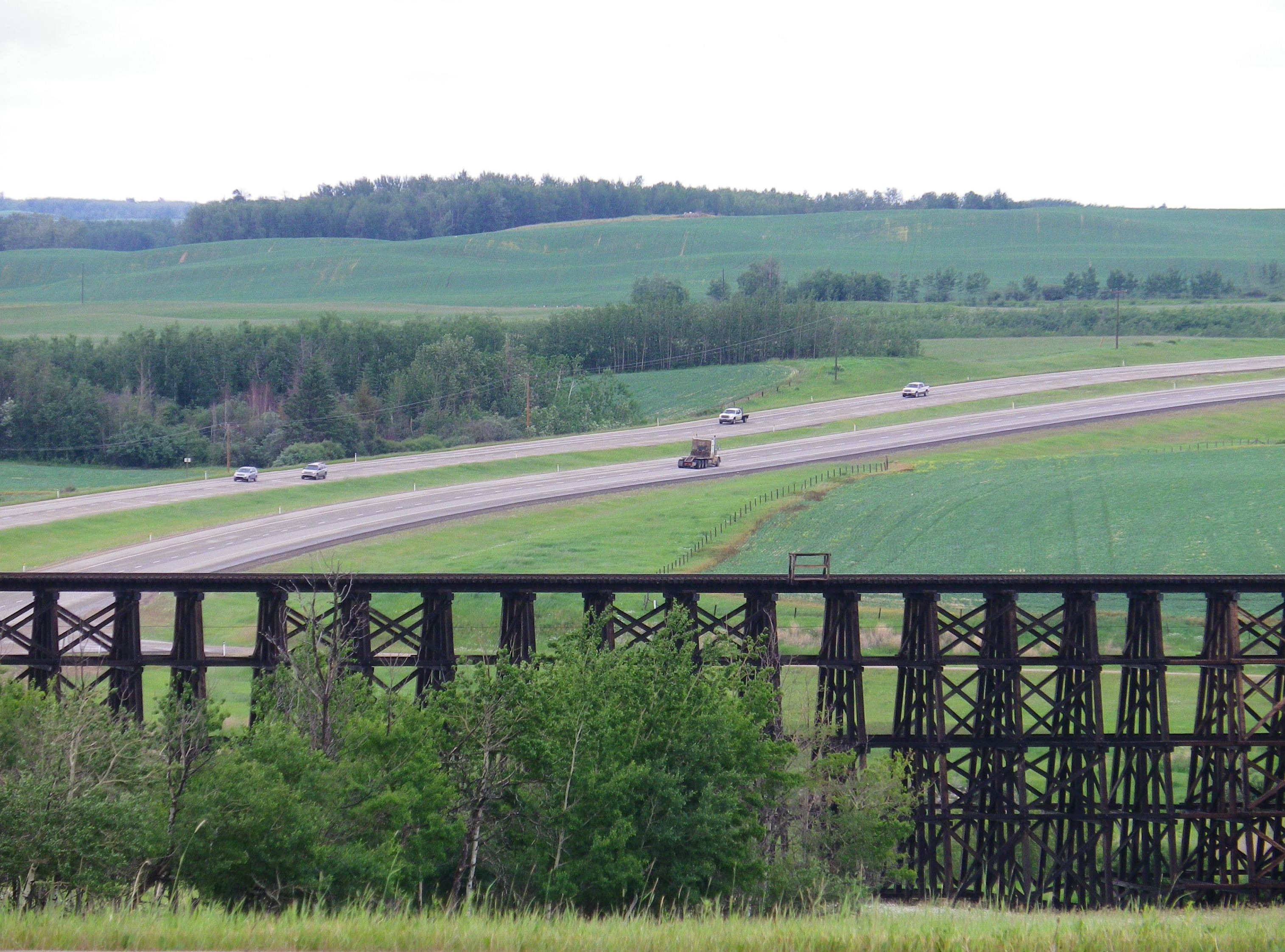 Detail of the railroad bridge near Sangudo, AB, with Highway 43 in the background.